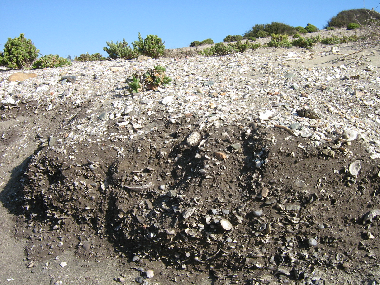 Shell´s Wrecks Diving